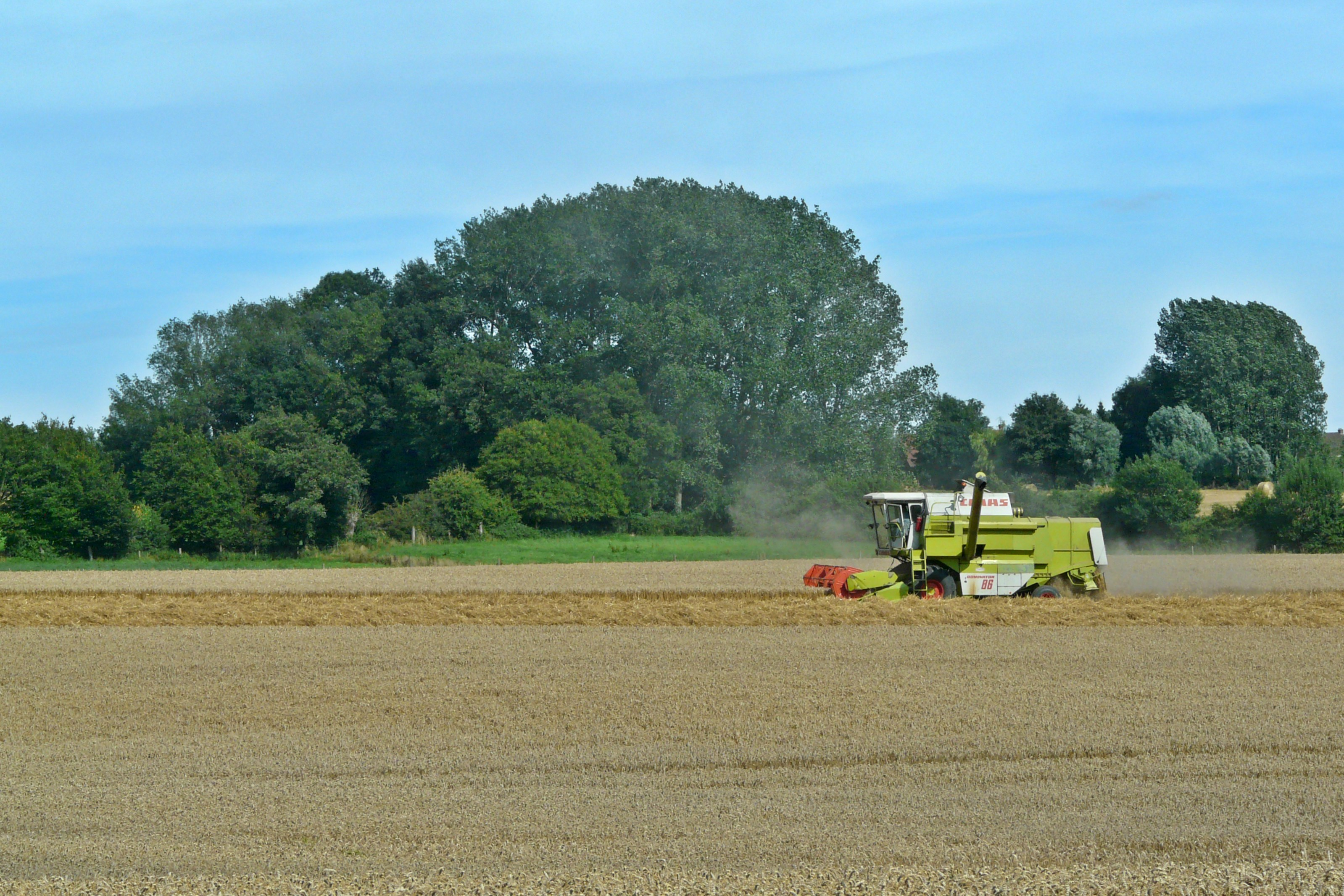 Wheat harvesting near Templeuve in Nord department, France